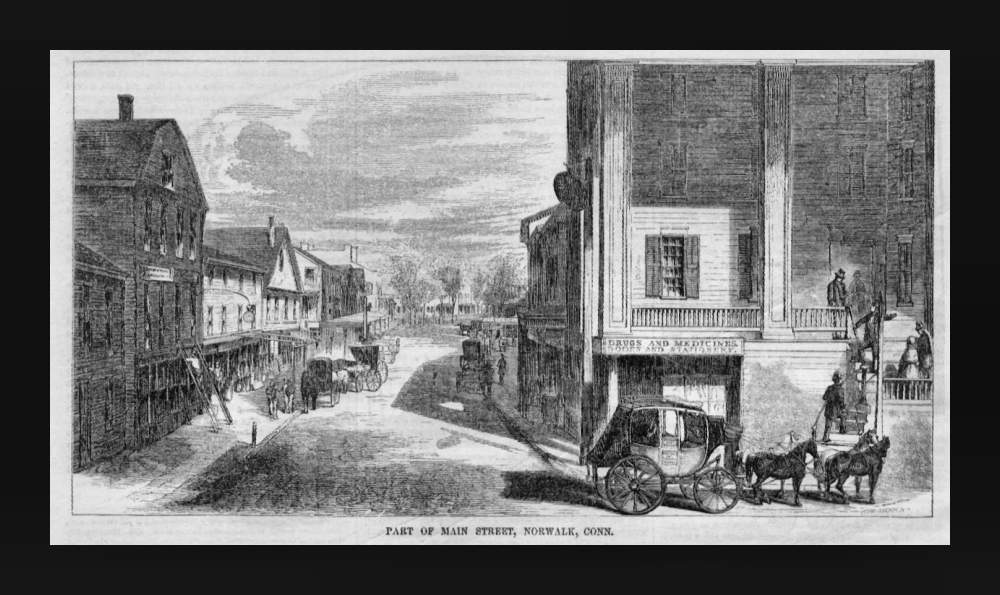 Picture caption: "Part of Main Street, Norwalk, Conn.", published in 1855 Description: "Published in "Ballou's Pictorial" 1855. Dimensions of the engraved area, in inches, minus margins is 5 1/4 x 9 1/4."